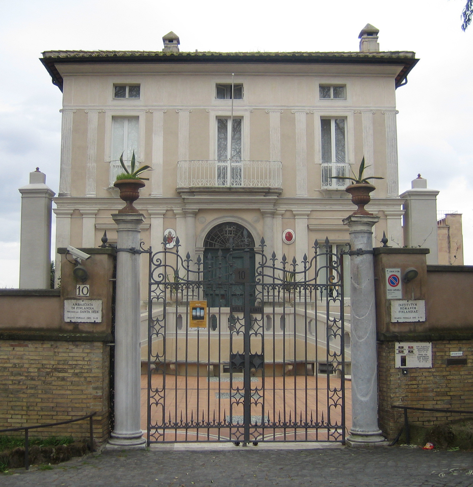 Villa Lante al Gianicolo, Rome.